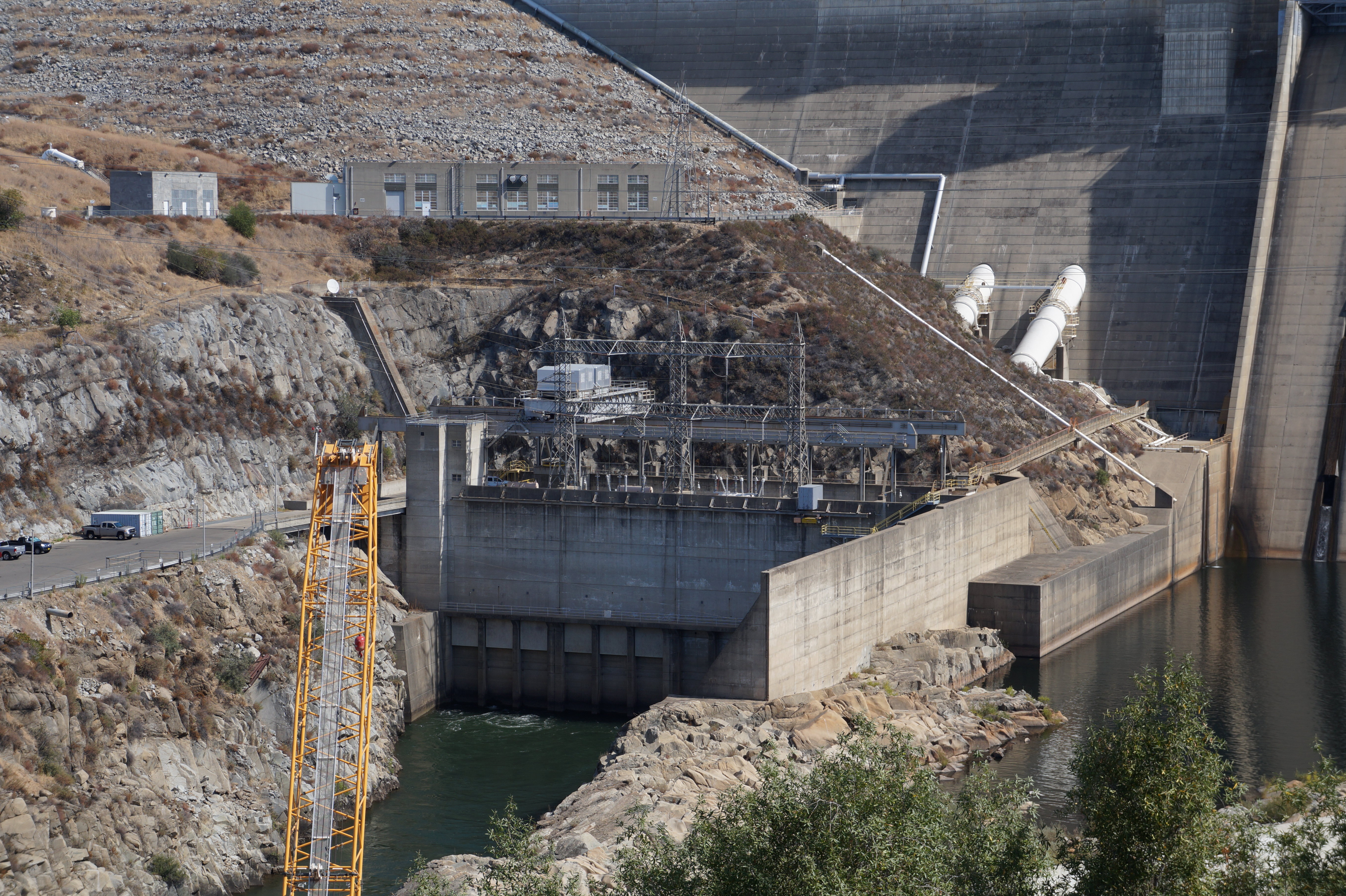 Photograph of the Folsom Dam Power Plant at the base of the Folsom Dam.